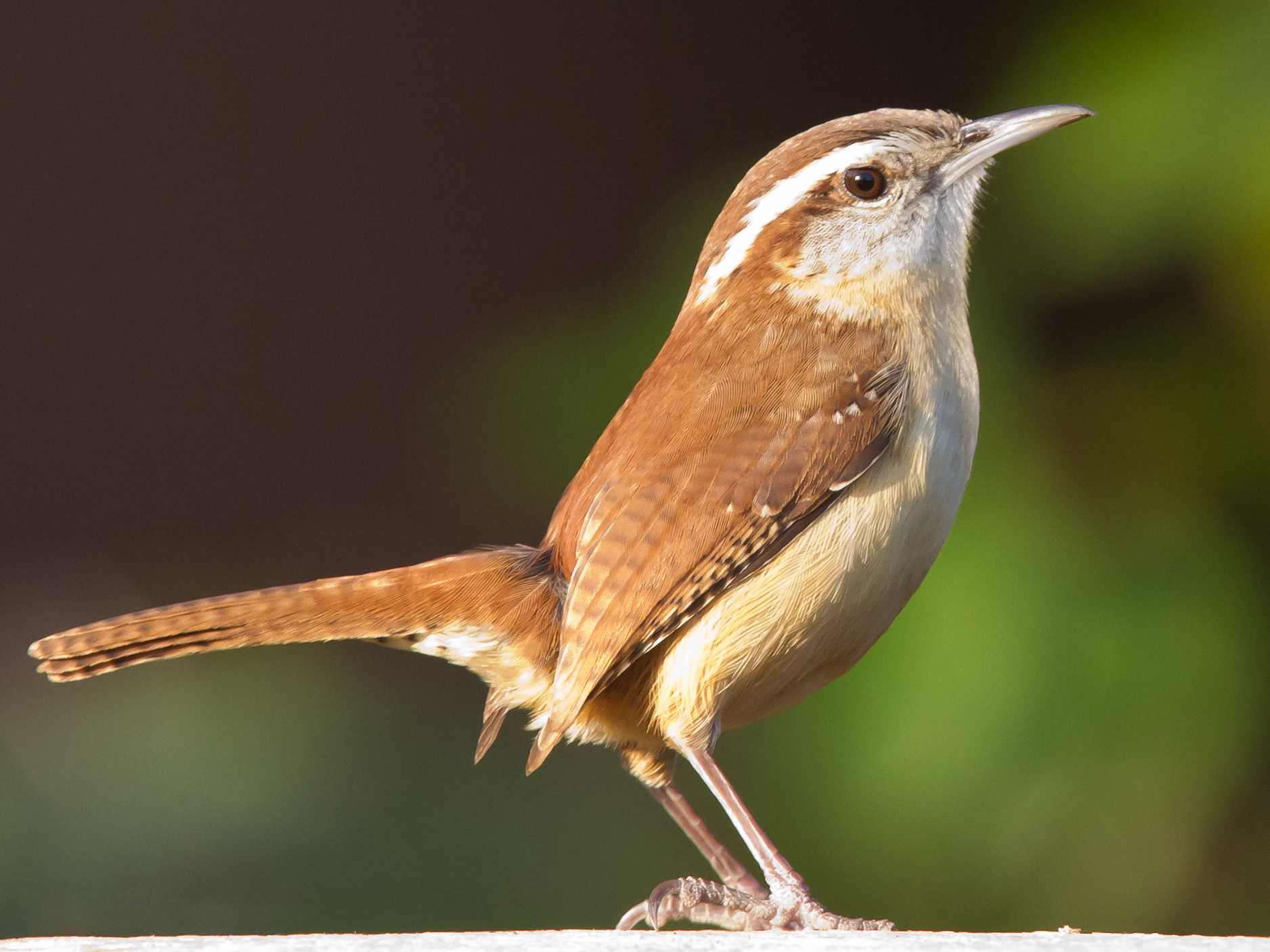 Carolina Wren, Clear Lake, Houston, Texas